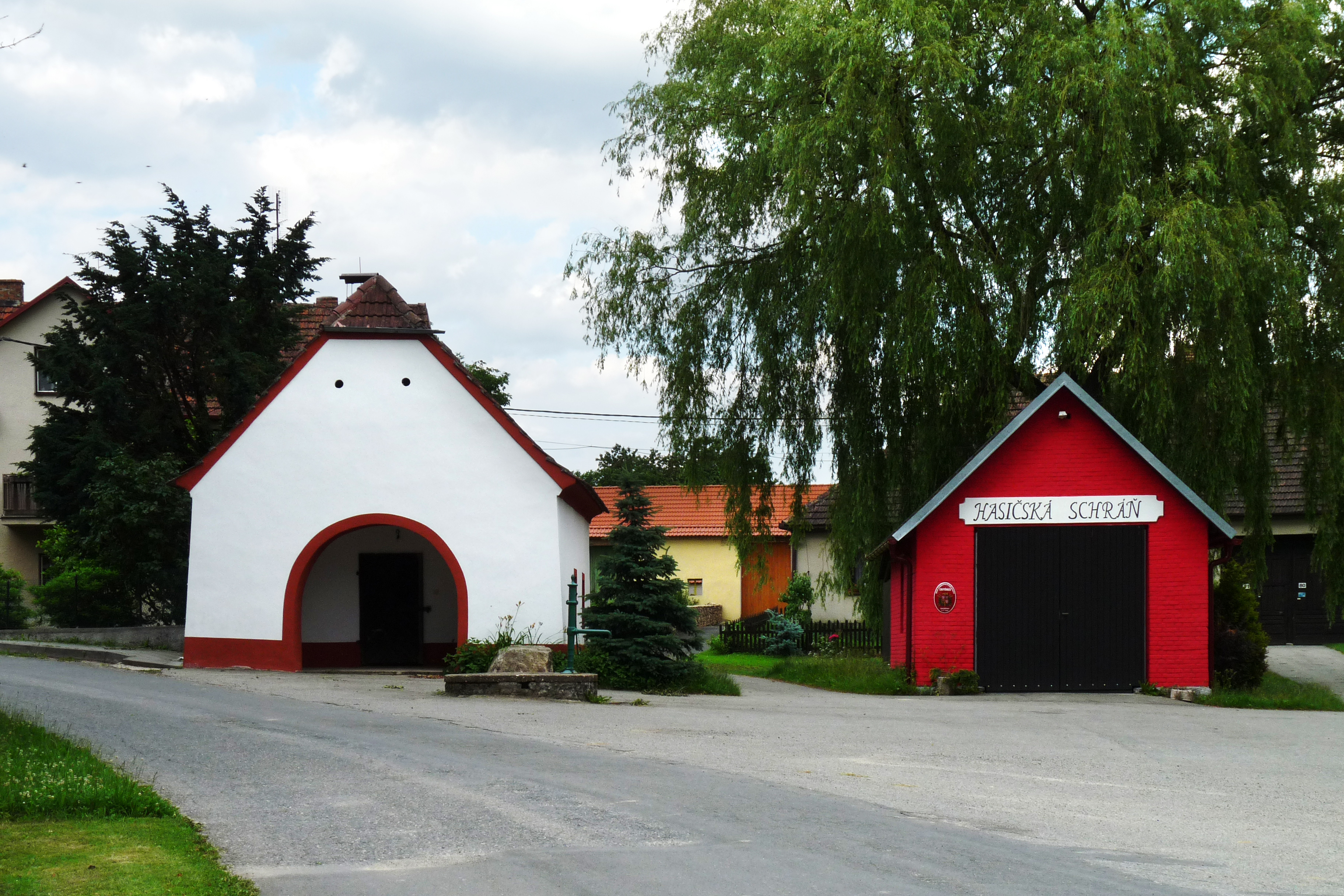 Former smithery and the fire station in the municipality of Chotěmice, Tábor District, South Bohemian Region, Czech Republic. Česky: Bývalá kovárna a hasičská zbrojnice v obci Chotěmice v okrese Tábor.